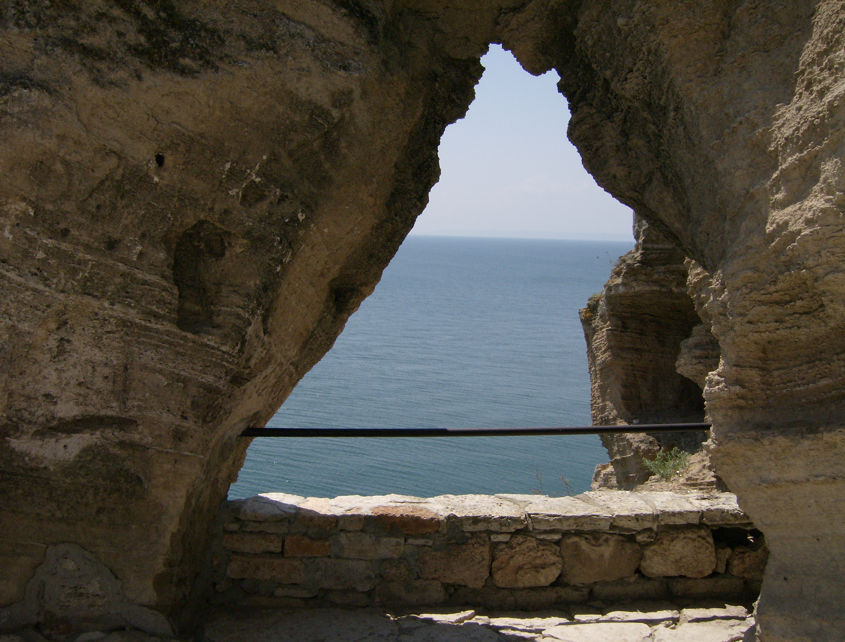 Kaliakra